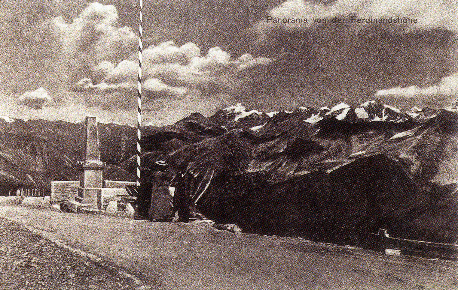 Postcard showing the Kaiser-Franz-Joseph-Obelisk at Ferdinandshöhe, Stilfser Joch